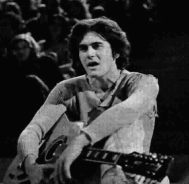 Italian singer Tito Schipa Jr. performing in the Italian musical show Tutto è pop, Turin